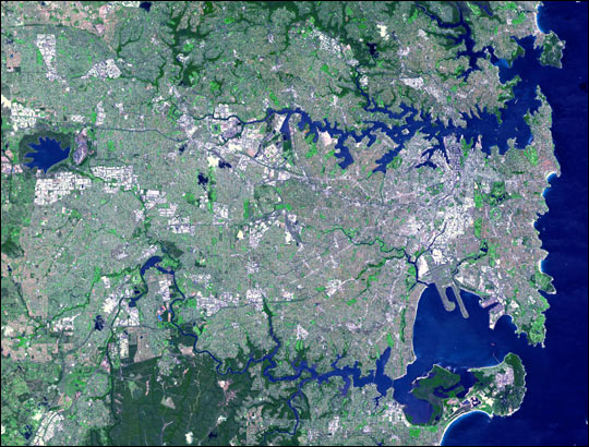 This simulated true-colour Advanced Spaceborne Thermal Emission and Reflection Radiometer (ASTER) image shows the Sydney metropolitan area on 12 October 2001 and covers an area of 42 by 33 kilometres. The image displays the concentrated development of the urban area. Observed by the Terra satellite.